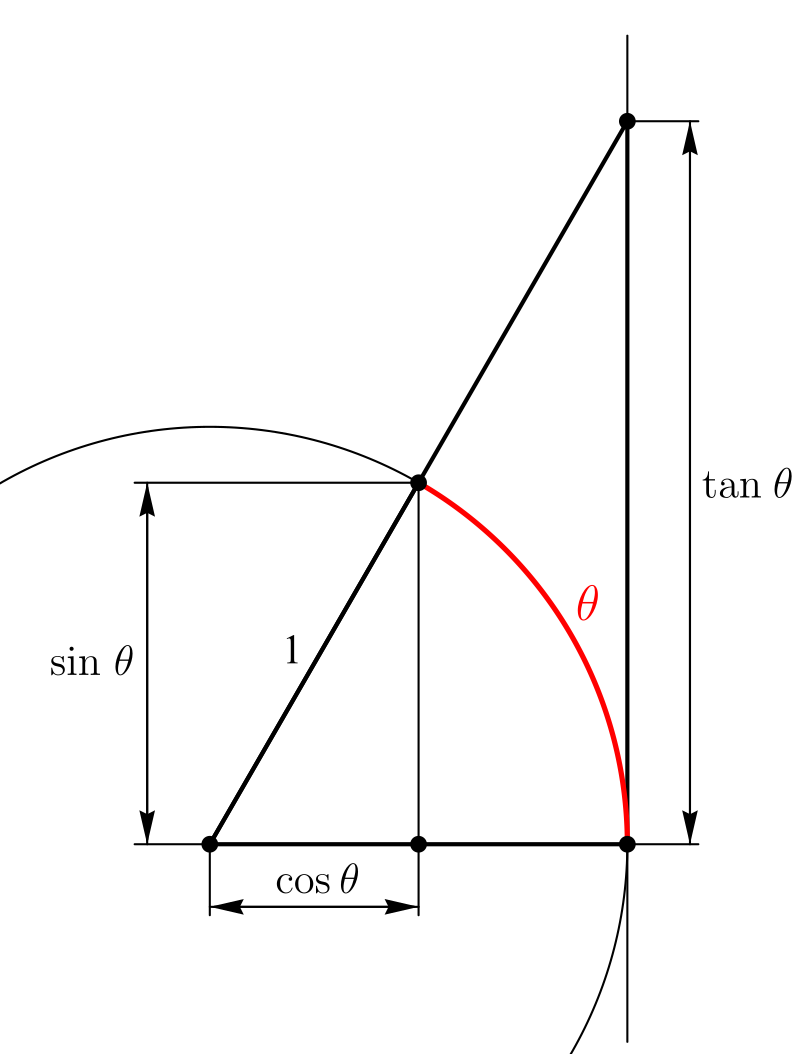 The basic trigonometric functions